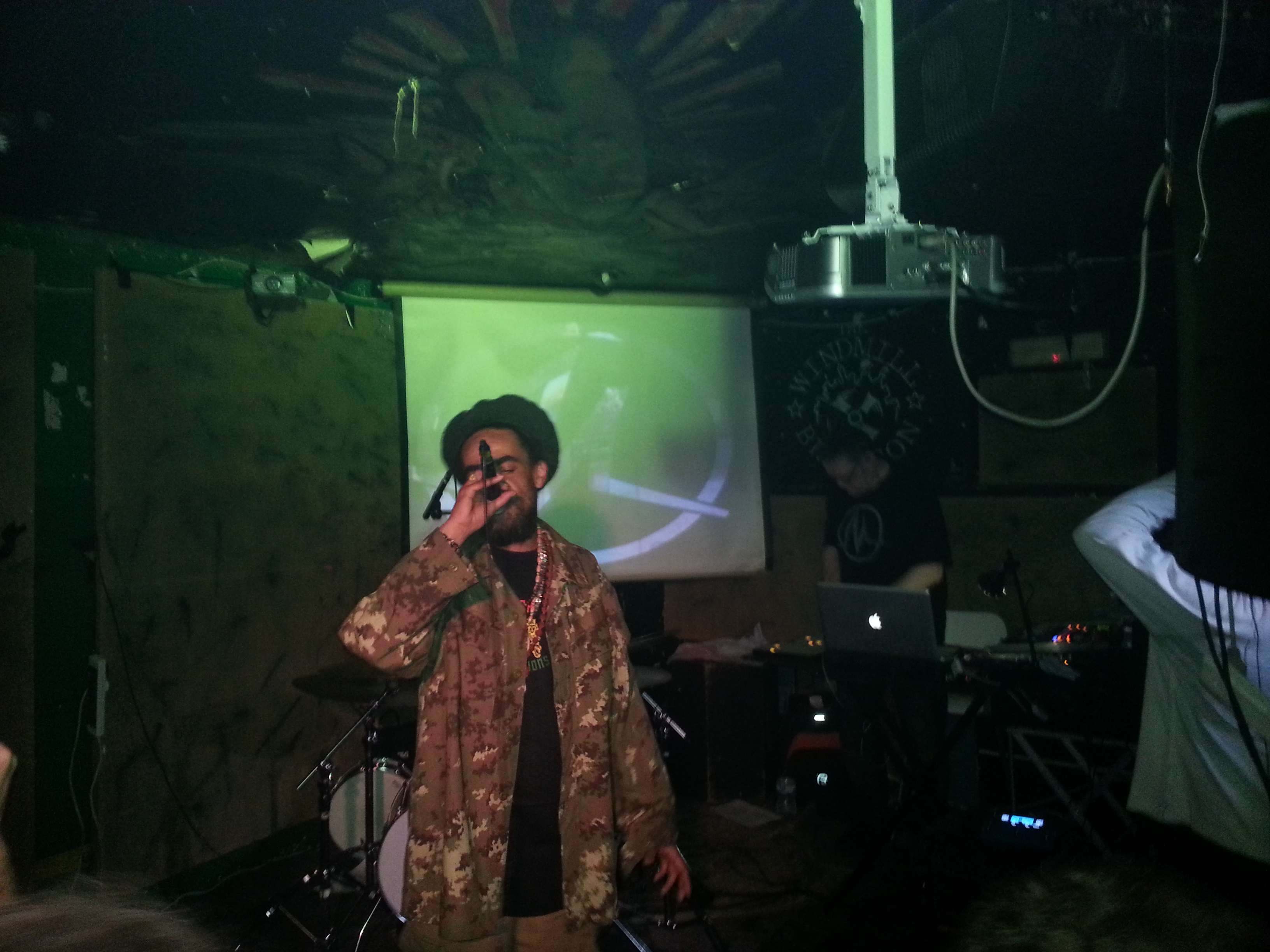 Mountain of Love performing live with Brother Culture.